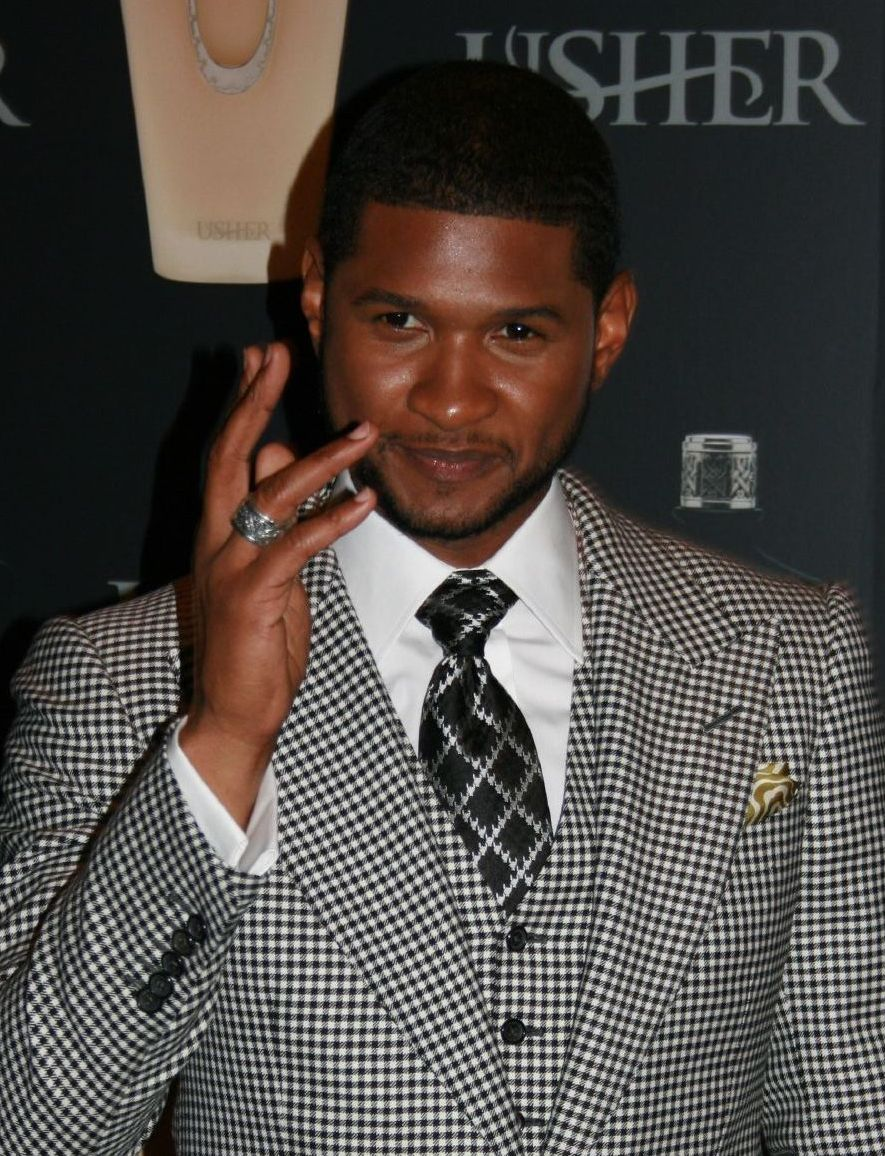 Usher Raymond during a product launching.